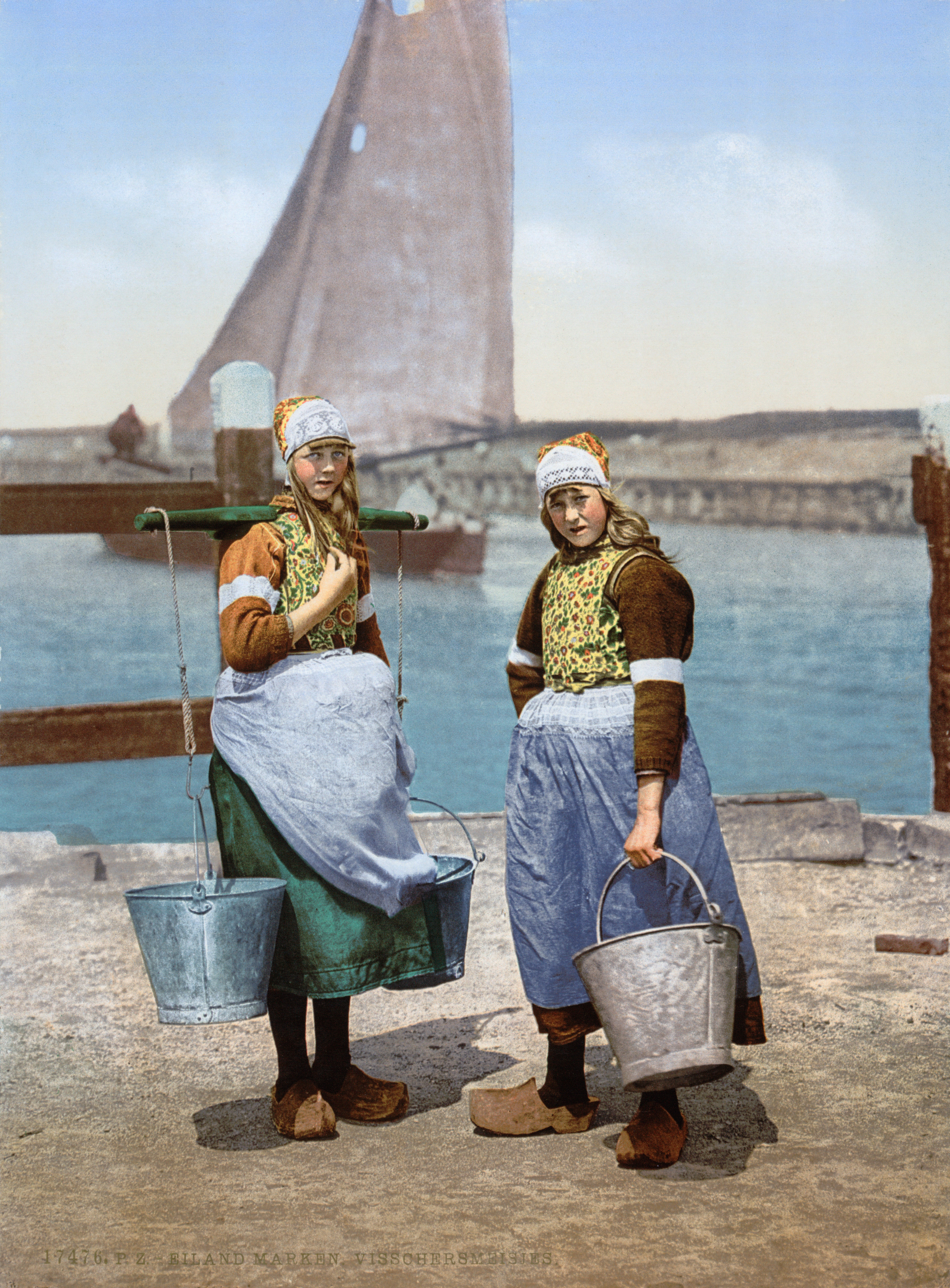 Girls from the isle of Marken, Netherlands in traditional costume.